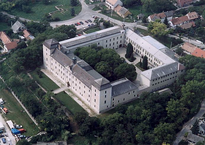 Palace - Zsámbék - Hungary - Europe